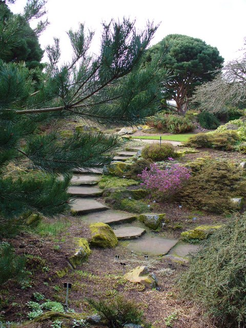 Steps Climb through the rock garden in the Botanic Gardens